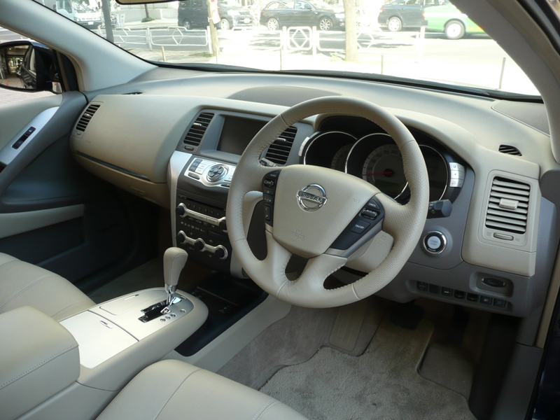 Nissan Murano interior.